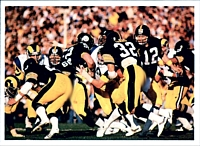 A football card from the 1986 Jeno's Pizza NFL football card stickers set of Pittsburgh Steelers quarterback Terry Bradshaw hands the ball off to fullback Franco Harris against the Los Angeles Rams in Super Bowl XIV. The card is numbered #46 in the set. The back of the card reads: PITTSBURGH MAKES IT FOUR IN A ROW Terry Bradshaw hands the ball to Franco Harris, as the Pittsburgh Steelers come from behind to beat the Los Angeles Rams 31-19 in Super Bowl XIV. The win gave the Steelers a remarkable four wins in four Super Bowl appearances. Bradshaw passed for 309 yards and two touchdowns to win most valuable player honors.